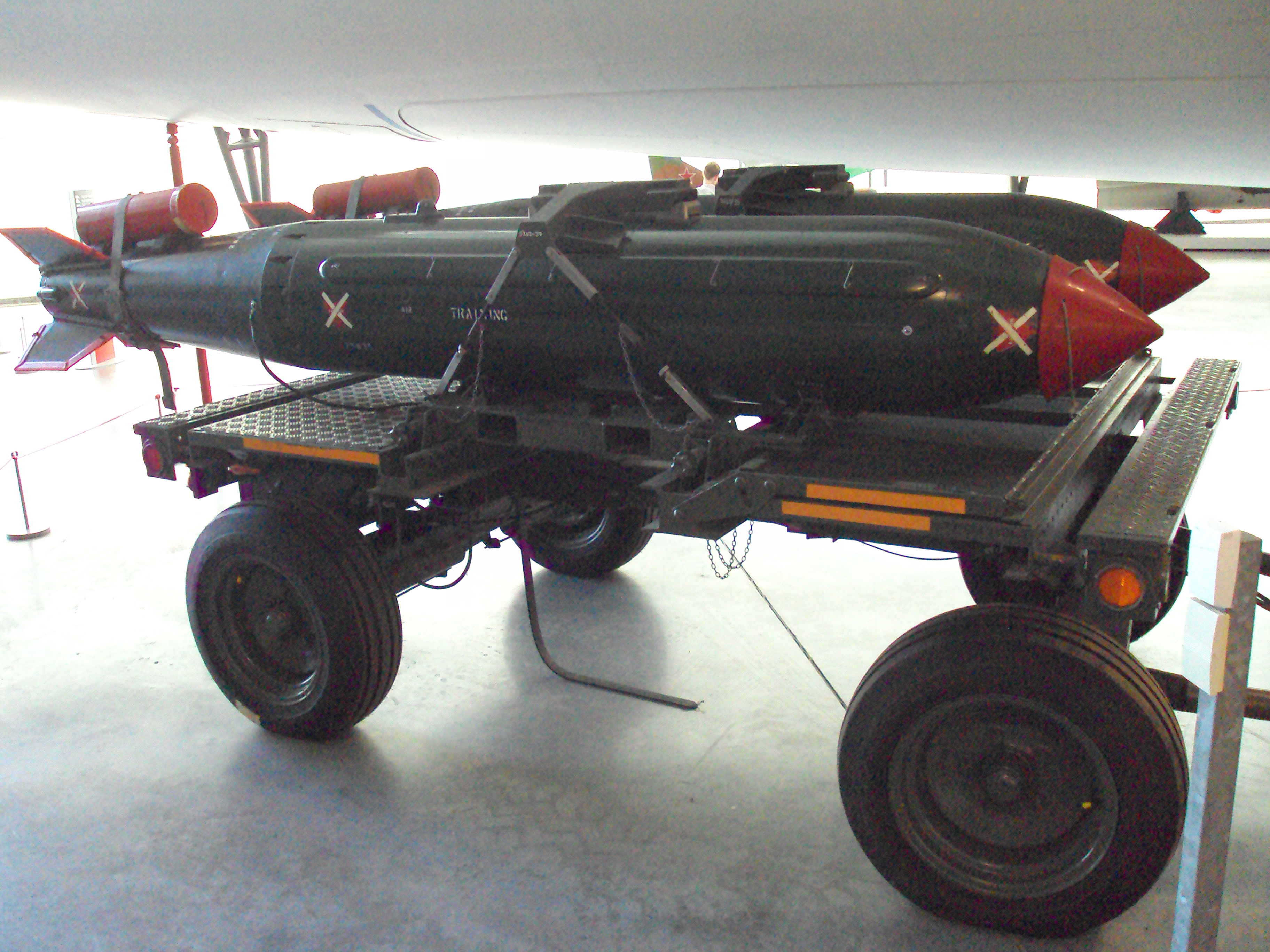 Photo of air-dropped bombs taken at the RAF Museum Cosford, Shropshire, England.